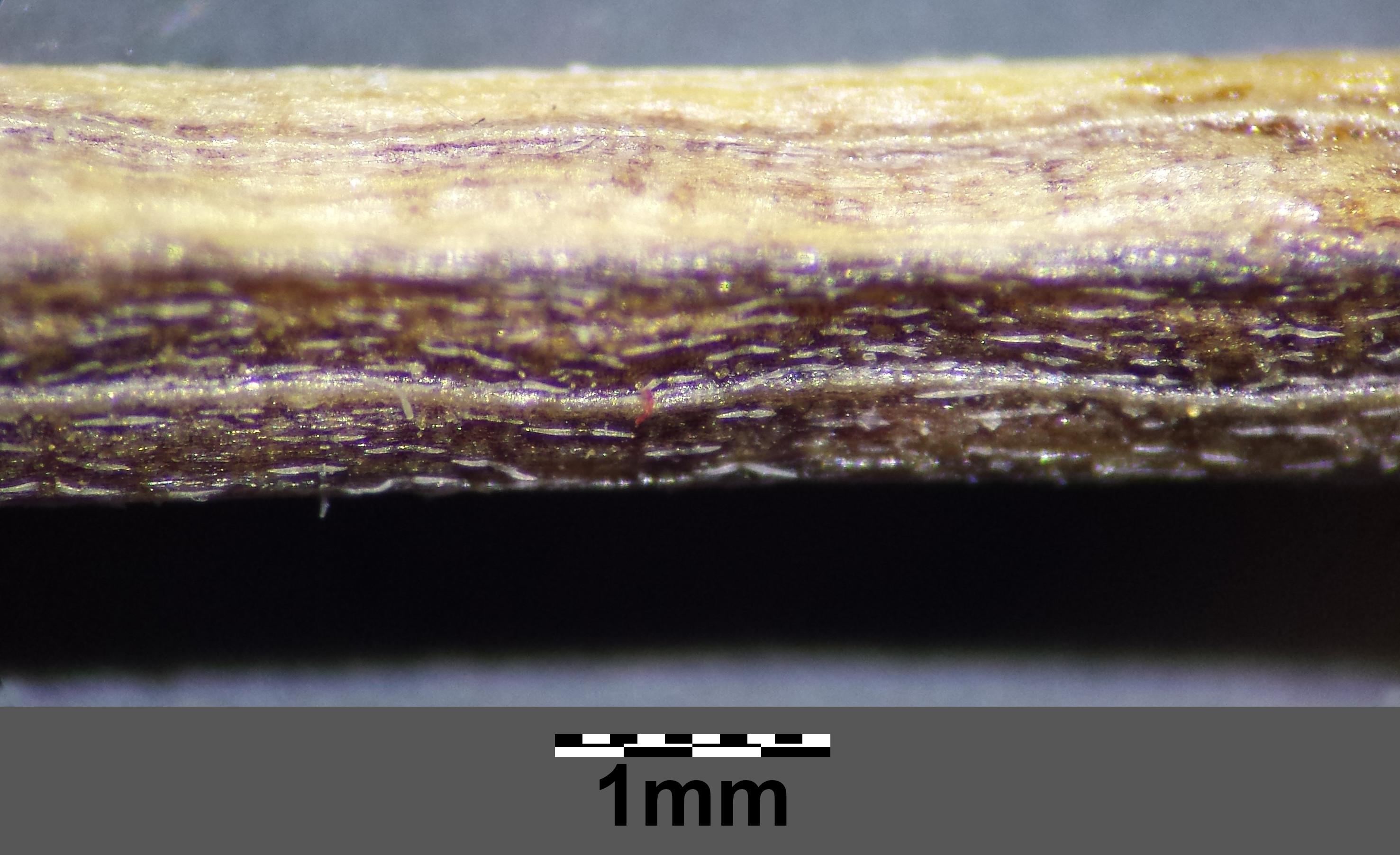 Silique with compass needle hairs Taxonym: Erysimum repandum ss Fischer et al. EfÖLS 2008 ISBN 978-3-85474-187-9 Location: Leiser Berge, district Korneuburg, Lower Austria - ca. 400 m a.s.l. Habitat: field